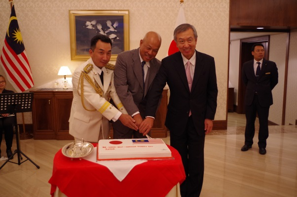 (From the right) Japanese Ambassador to Malaysia Makio Miyagawa, Chief of Malaysian Army Gen. Tan Sri Raja Mohamed Affandi and Defense Attaché Masataka Nishinaga, celebrate the Self Defense Force Day at the ambassador's residence in Kuala Lumpur.